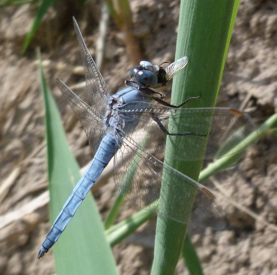 Ondara River, near Tàrrega, Lleida, Catalonia